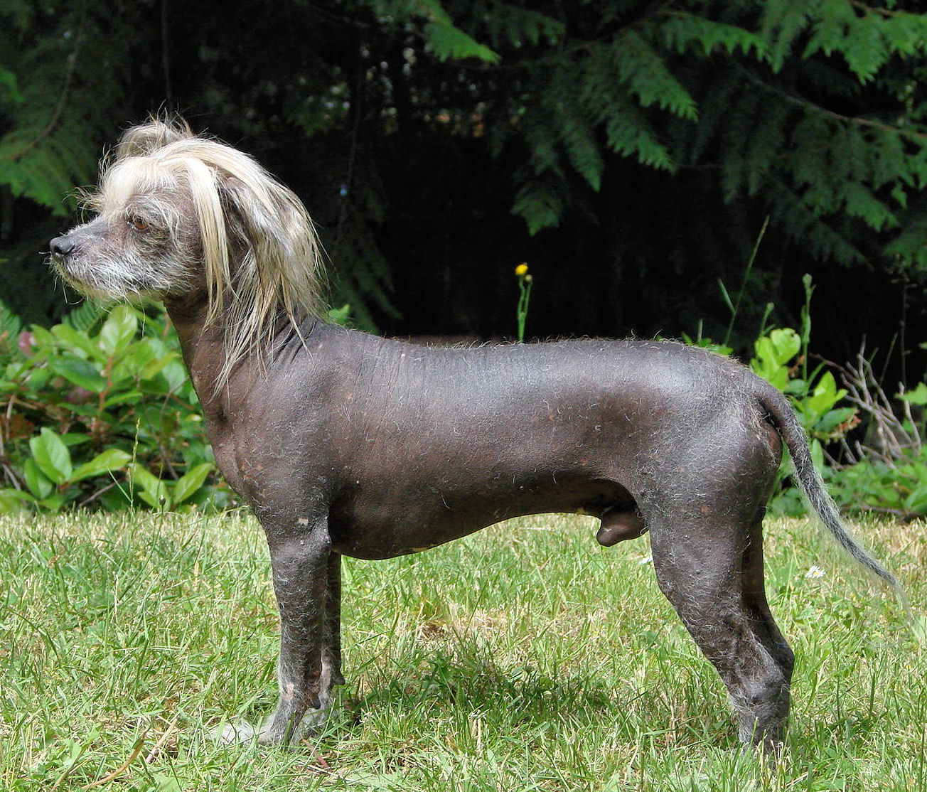 Chinese Crested